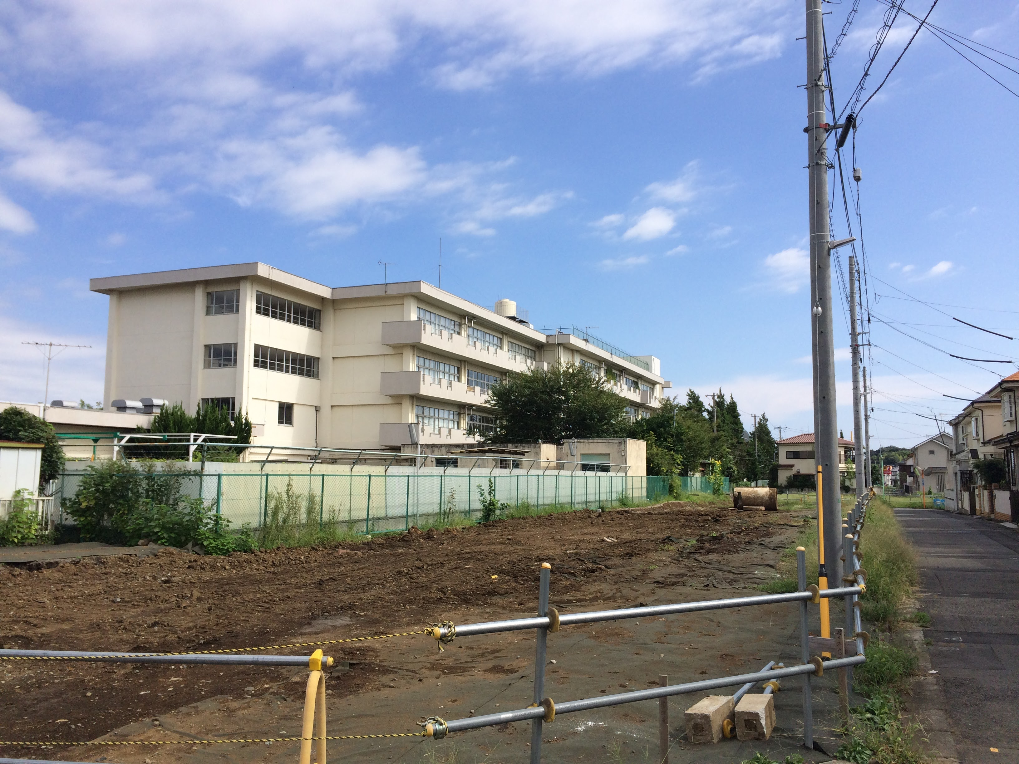 An elementary school in Higashi-kurume City